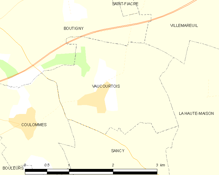 Map of French municipality Vaucourtois